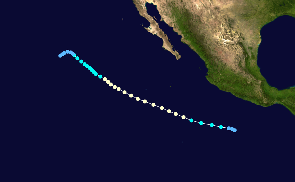 Hurricane Liza (1968) track. Uses the color scheme from the Saffir-Simpson Hurricane Scale.